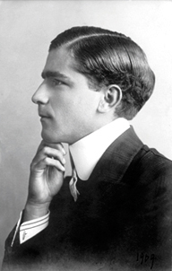 Greek linguist Manolis Triandafillidis